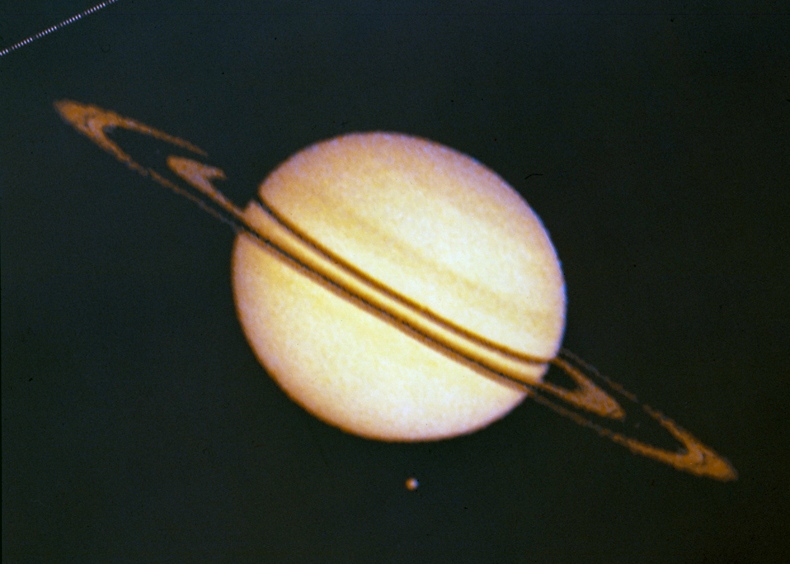 The Pioneer 11 spacecraft launched from Cape Canaveral forty years ago, on April 5, 1973. Pioneer 11's path through Saturn's outer rings took it within 21,000 km of the planet, where it discovered two new moons (almost smacking into one of them in September 1979) and a new "F" ring. The spacecraft also discovered and charted the magnetosphere, magnetic field and mapped the general structure of Saturn's interior. The spacecraft's instruments measured the heat radiation from Saturn's interior and found that its planet-sized moon, Titan, was too cold to support life. This image from Pioneer 11 shows Saturn and its moon Titan. The irregularities in ring silhouette and shadow are due to technical anomalies in the preliminary data later corrected. At the time this image was taken, Pioneer was 2,846,000 km (1,768,422 miles) from Saturn.